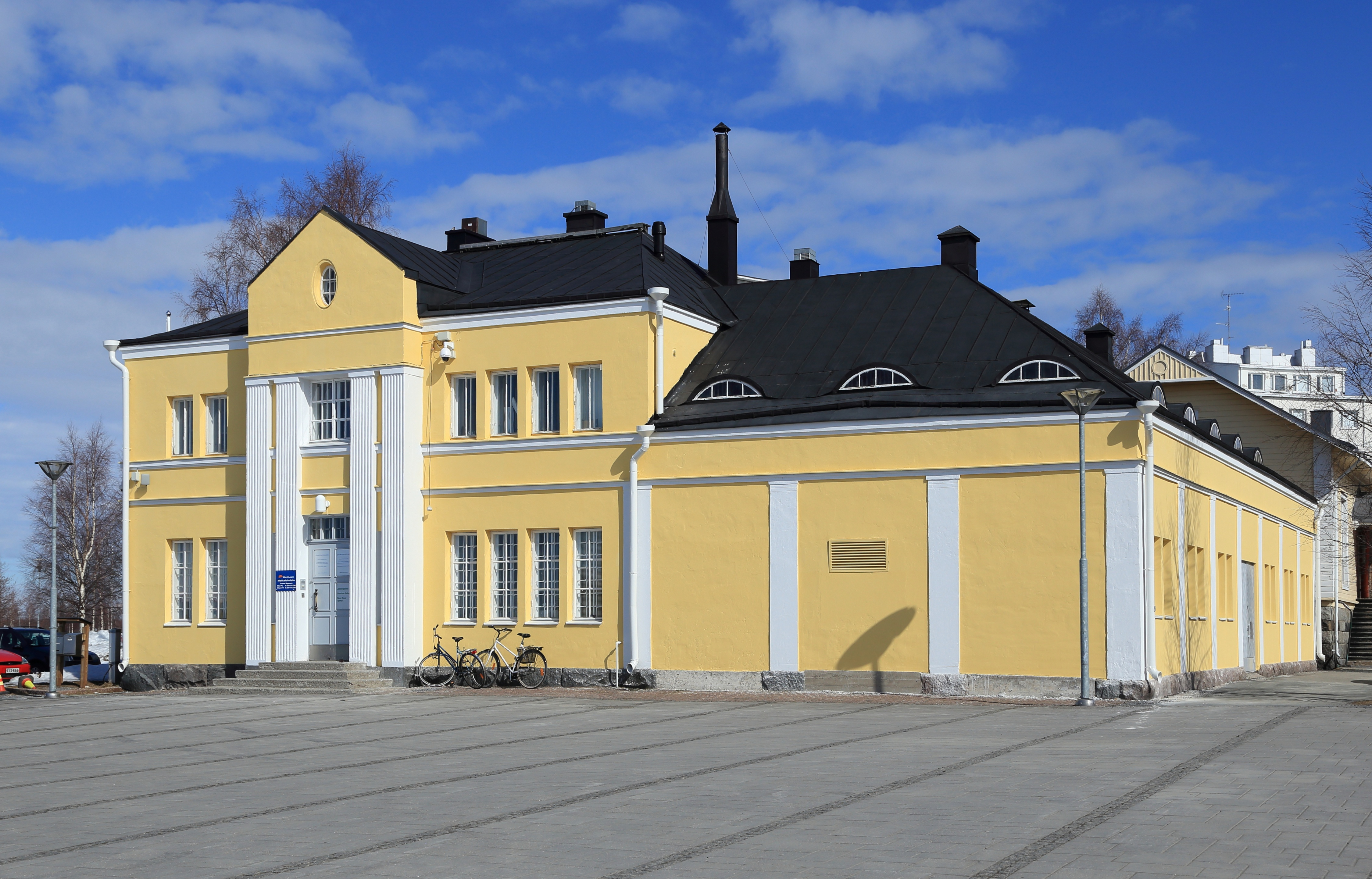 The Gemstone Gallery in Kemi, Finland. The building is an old customs house.